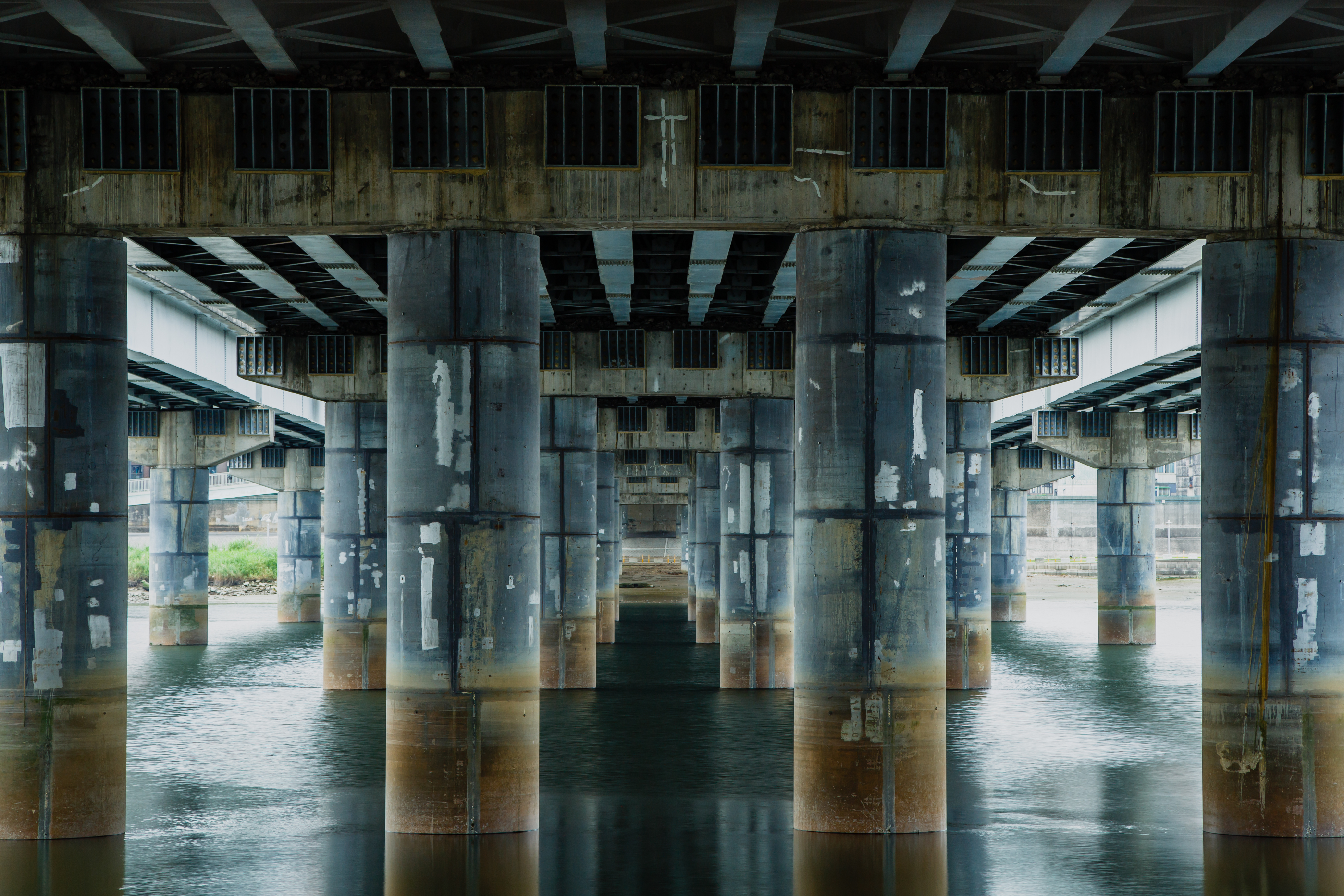 Taipei, Taiwan: Pilars of the Taipei Bridge.